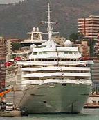 sundream-sumbird-carousel